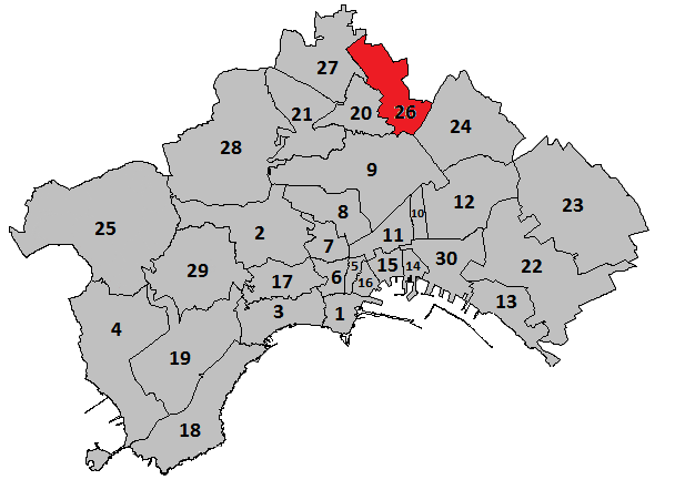 Secondigliano in Naples